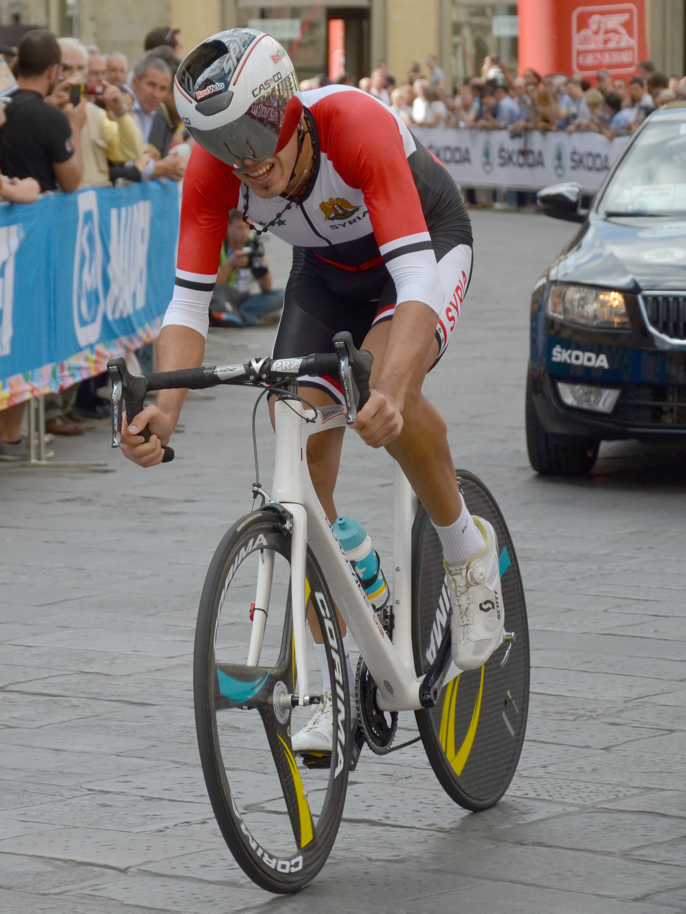 Jaser Nazir Uci Road World Championships Toscana Italy 2013 Florence